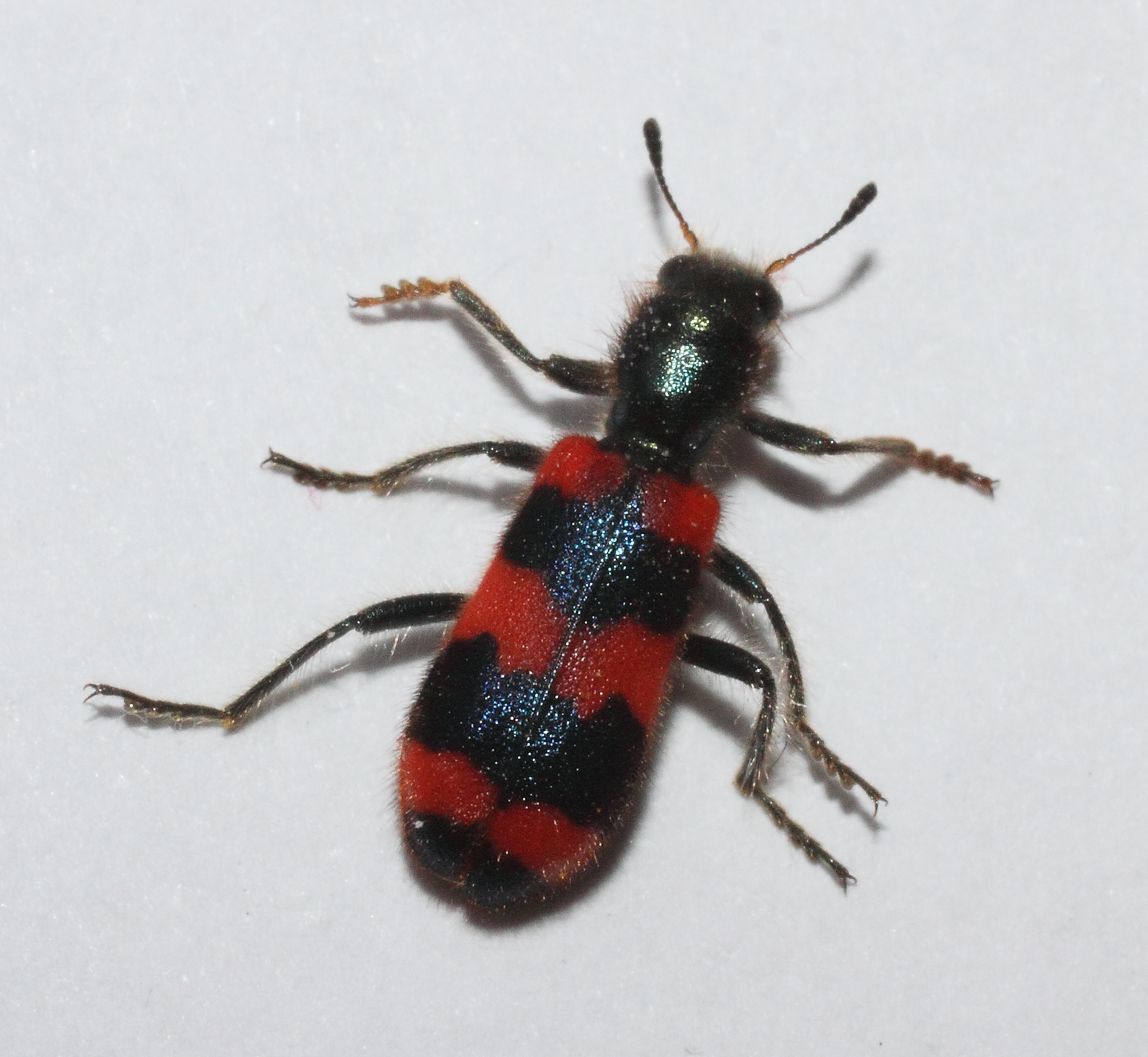 Trichodes sp. possibly T. apiarius